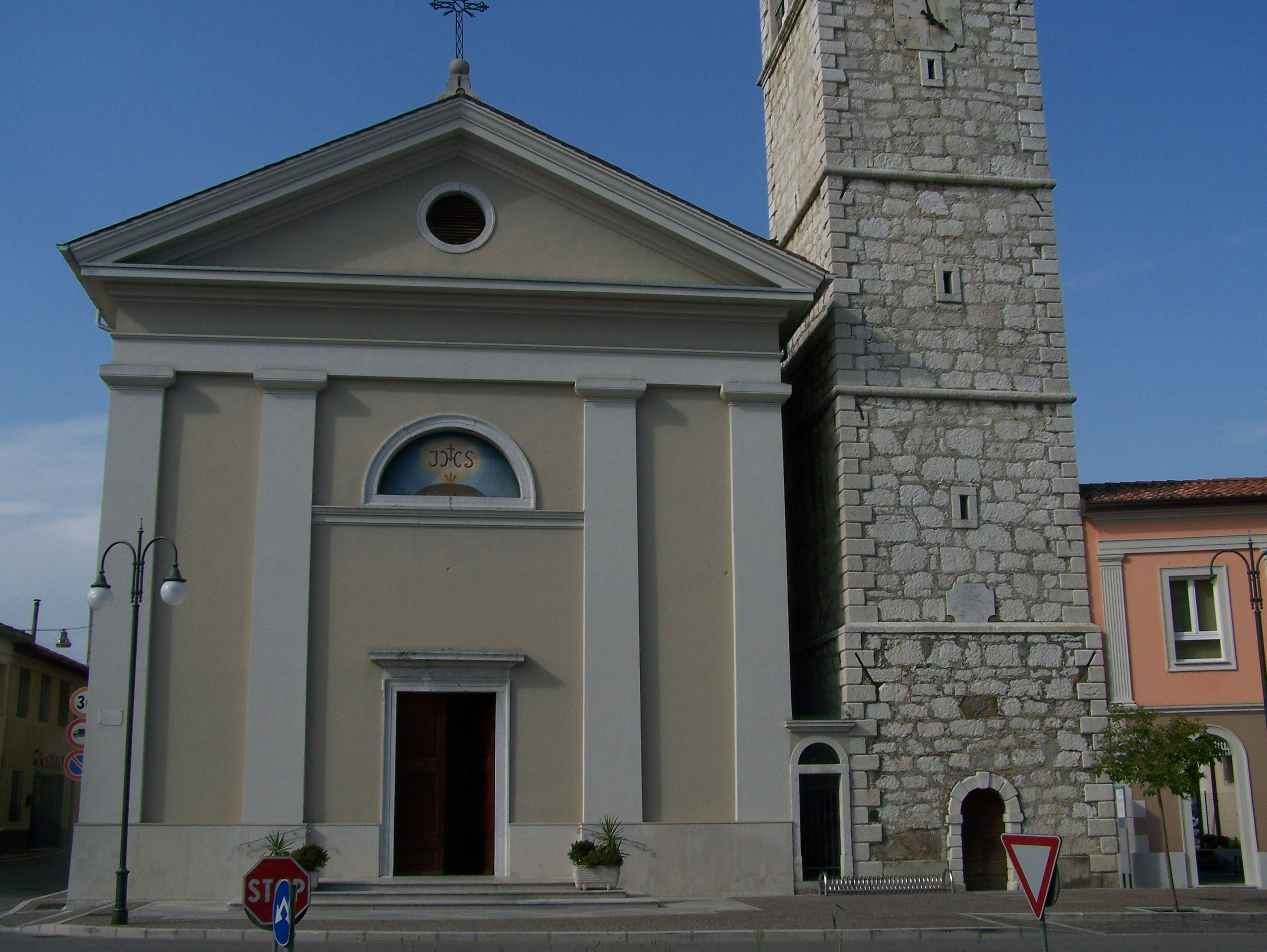 The curch of Saint Roch in Villesse, Friuli, Italy Furlan: La glesie di Sant Roc a Vilès, provincie di Gurize. E fo costruide tal 1828.